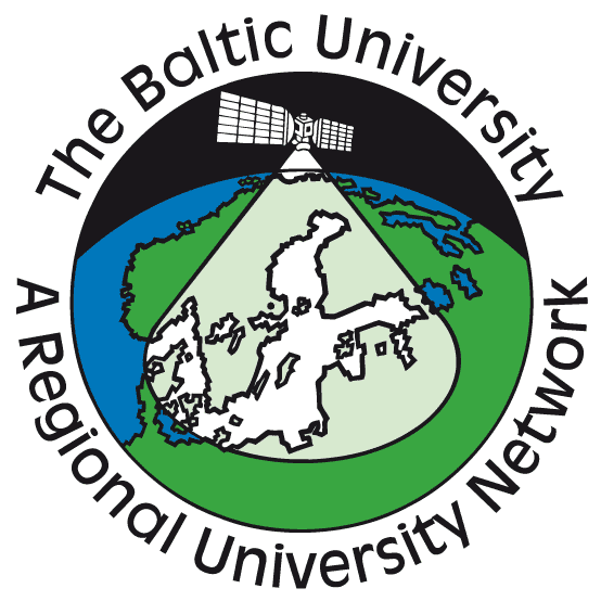 BUP logo